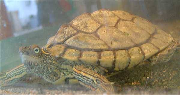 Texas map turtle